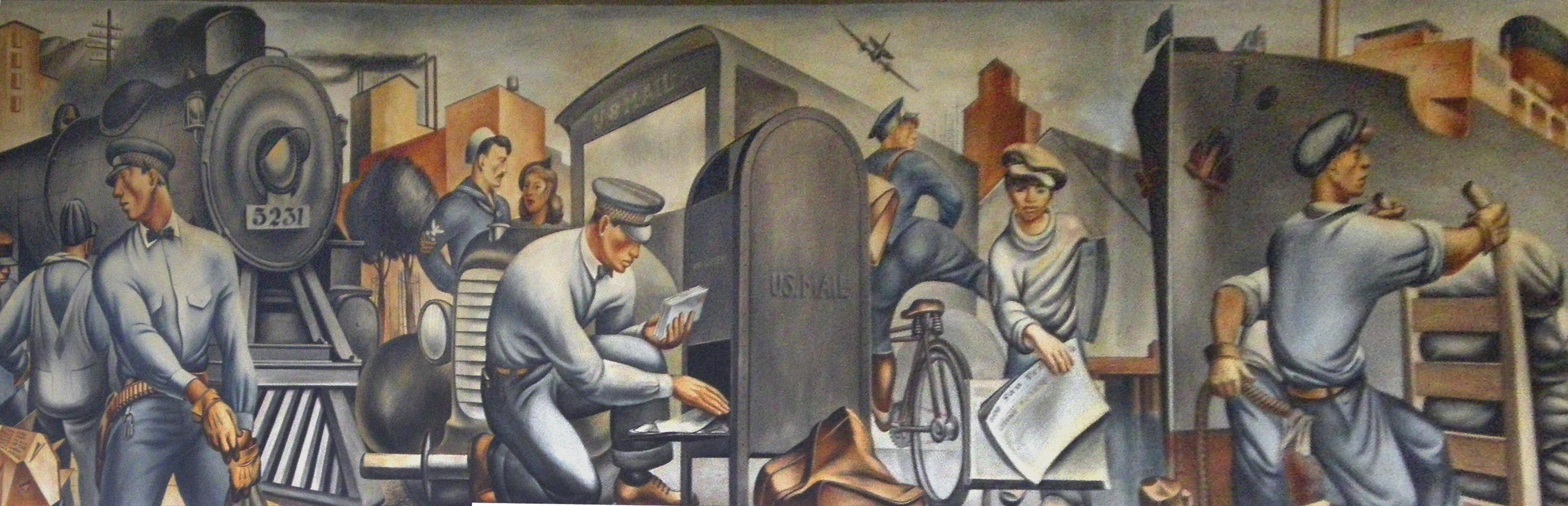 Mural detail, "Mail Transportation" — San Pedro Post Office, San Pedro, California. More information at The Living New Deal